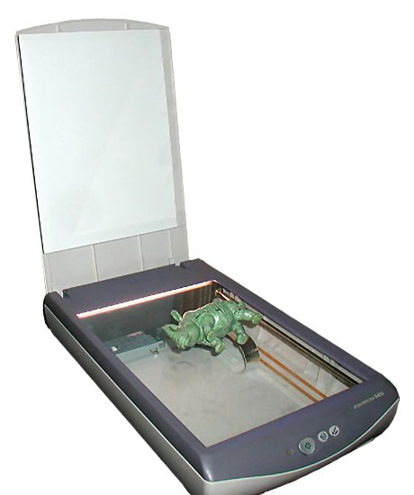 Flat-bed Scanner.